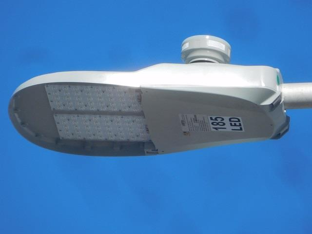 History of street lighting